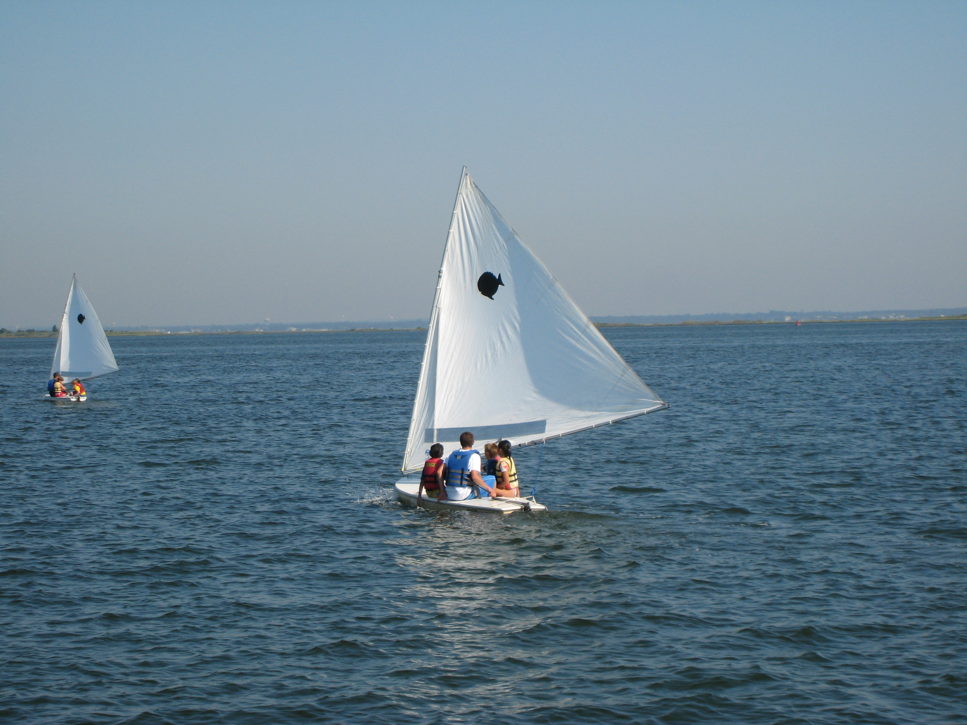 Two Sunfish with instructors teaching children. It was taken in Dunewood, New York while visiting a friend.